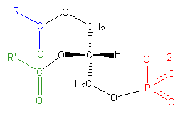 Structural formula of phosphatidate (red: Phosphate; blue & green: fatty acid)